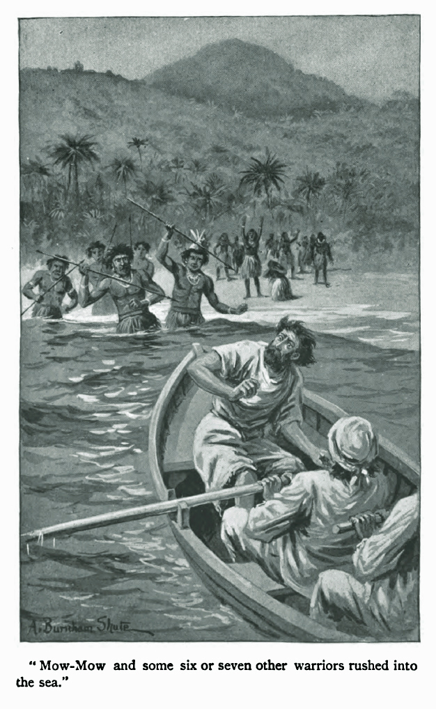 Illustration from the novel Typee by Herman Melville